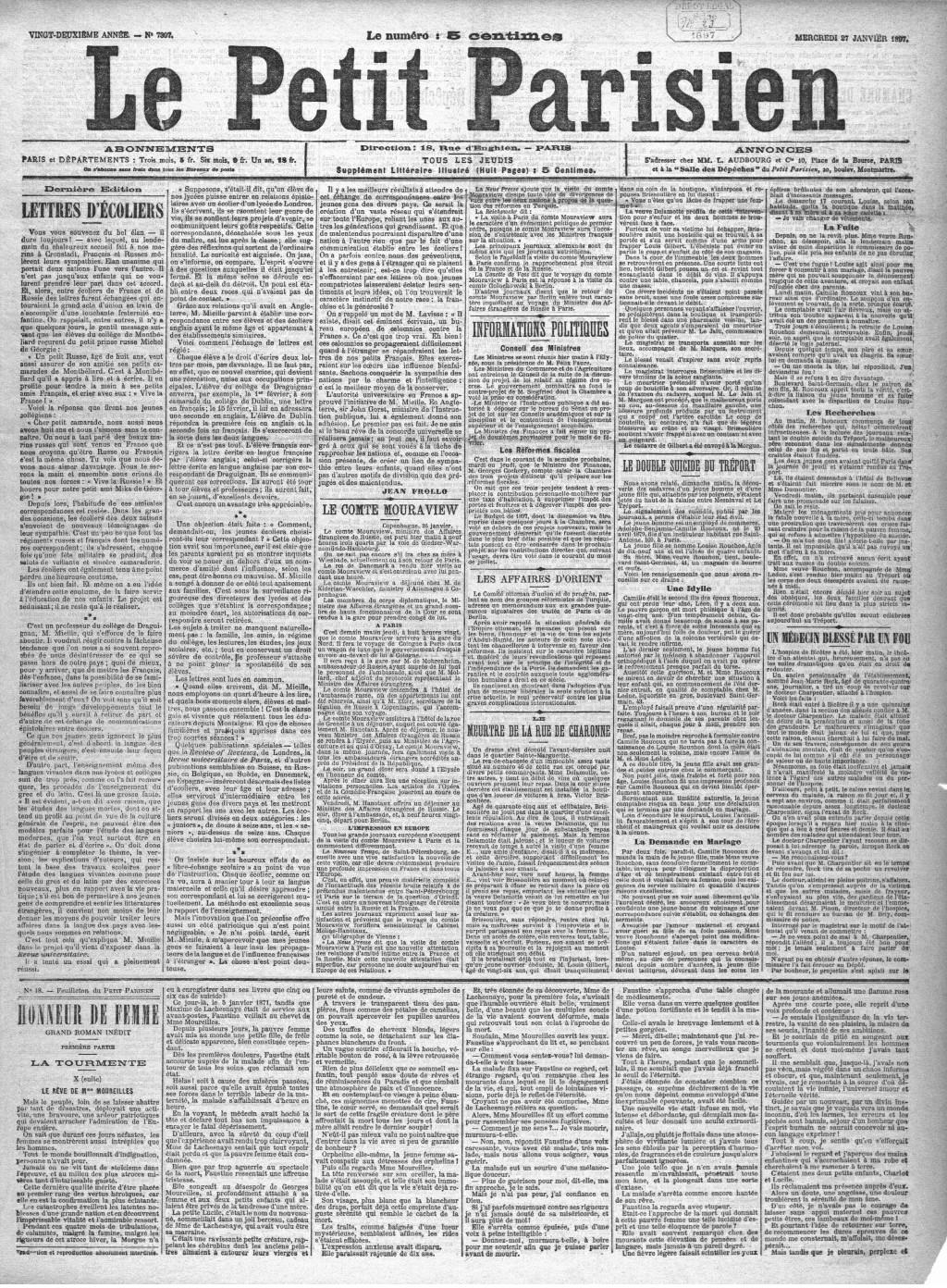 Front page of the french newspaper "Le Petit Parisien", January 27th, 1897 .